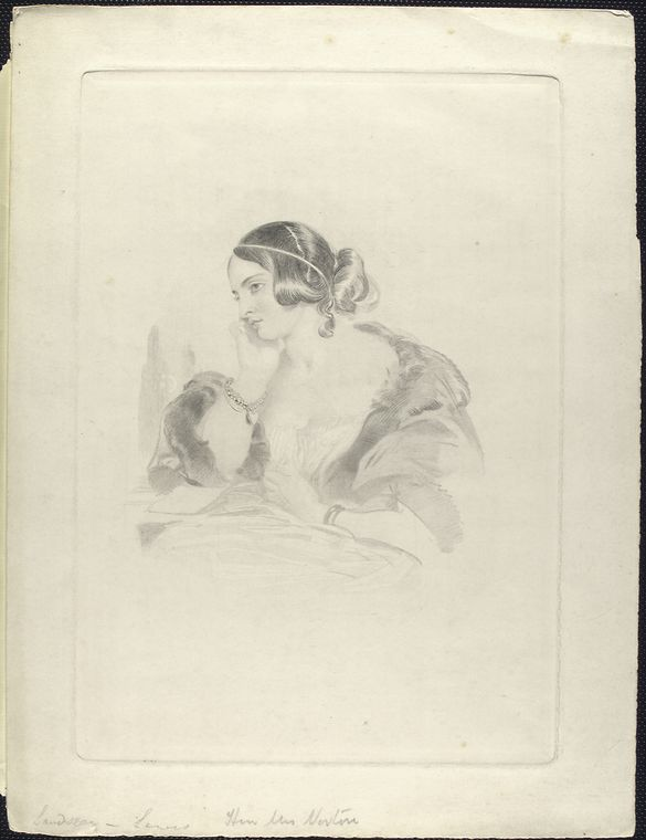 Caroline Norton engraved portrait after Sir Edwin Landseer